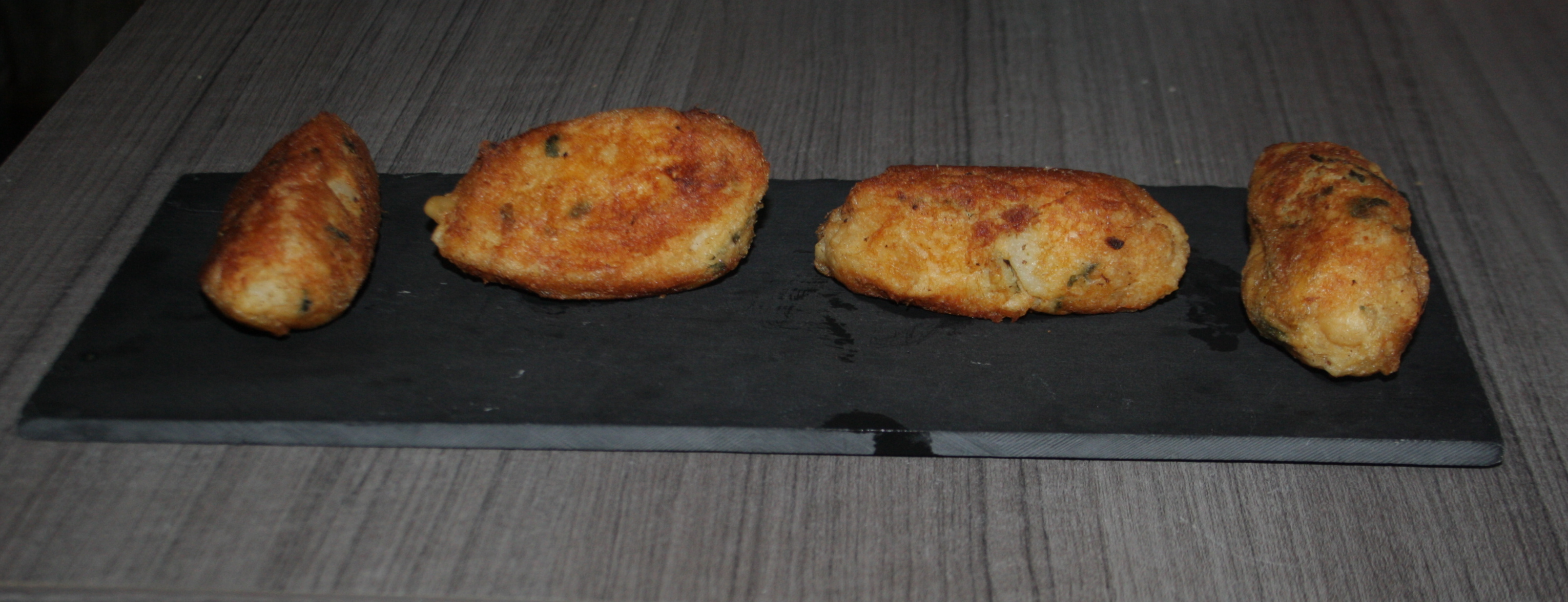 Codballs